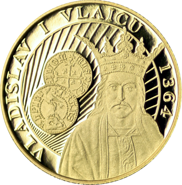 Reverse of commemorative 50 bani and 100 Lei 2014 dedicated to the 650th anniversary of the beginning of the reign of Vladislav I Vlaicu